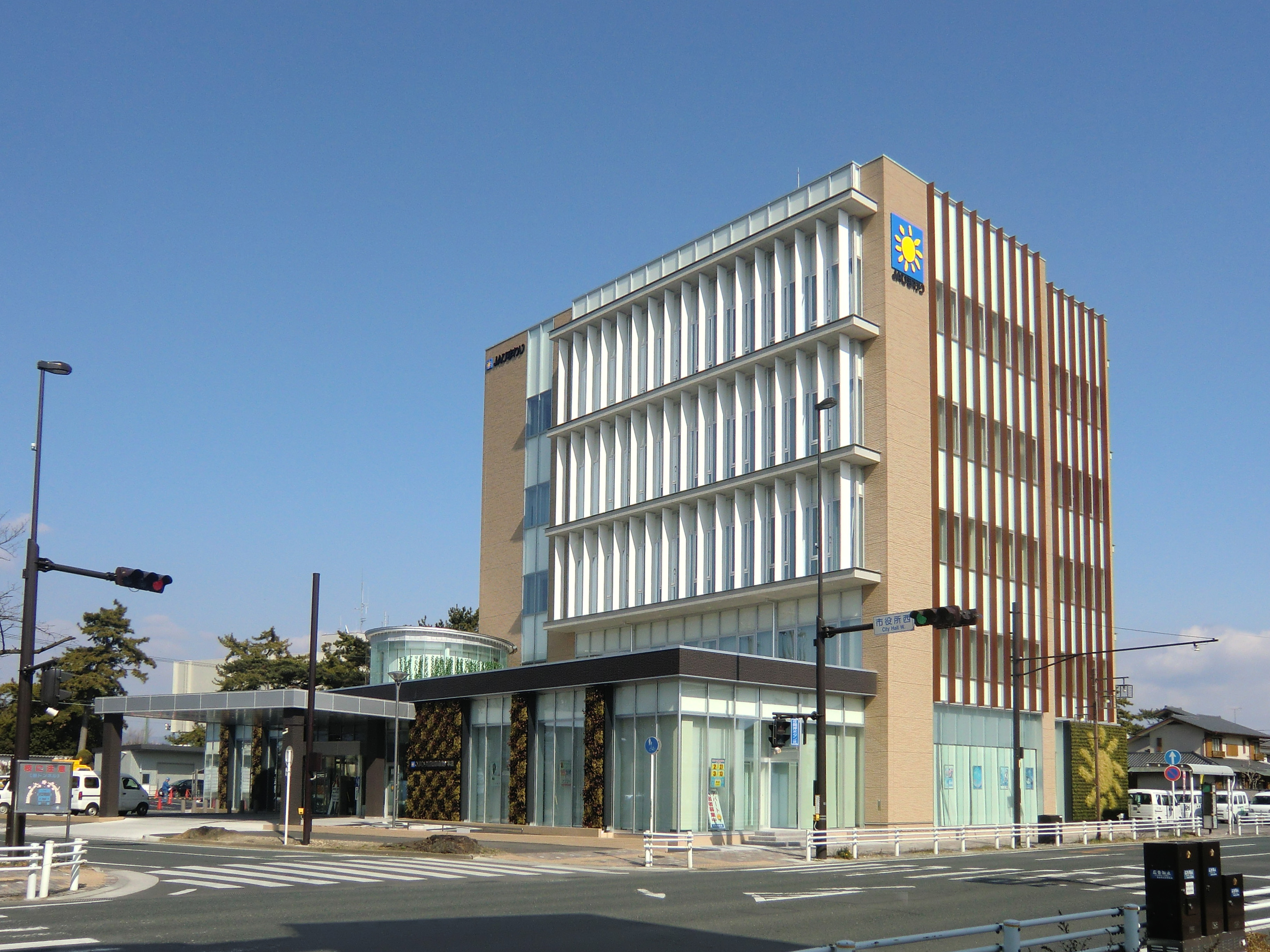 Headquarters of JA Himawari (ひまわり農業協同組合 Himawari Nōgyō Kyōdō Kumiai), located at 1-1, Suwa, Toyokawa, Aichi, Japan